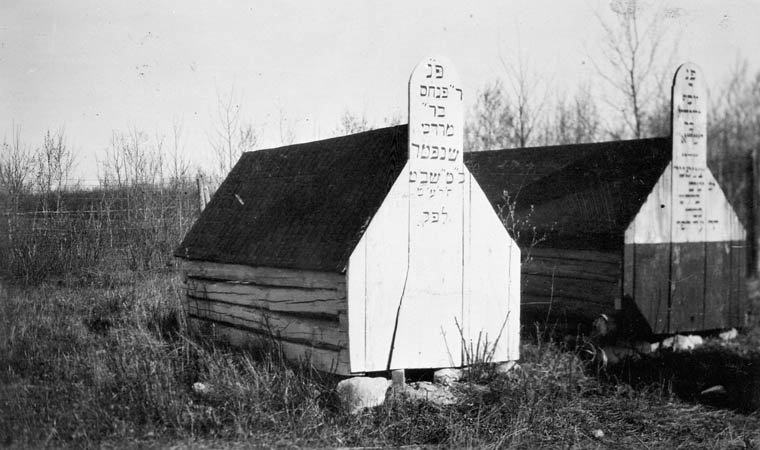 Graves in Jewish cemetery at Lipton Colony, Saskatchewan. Log huts over graves and wooden markers